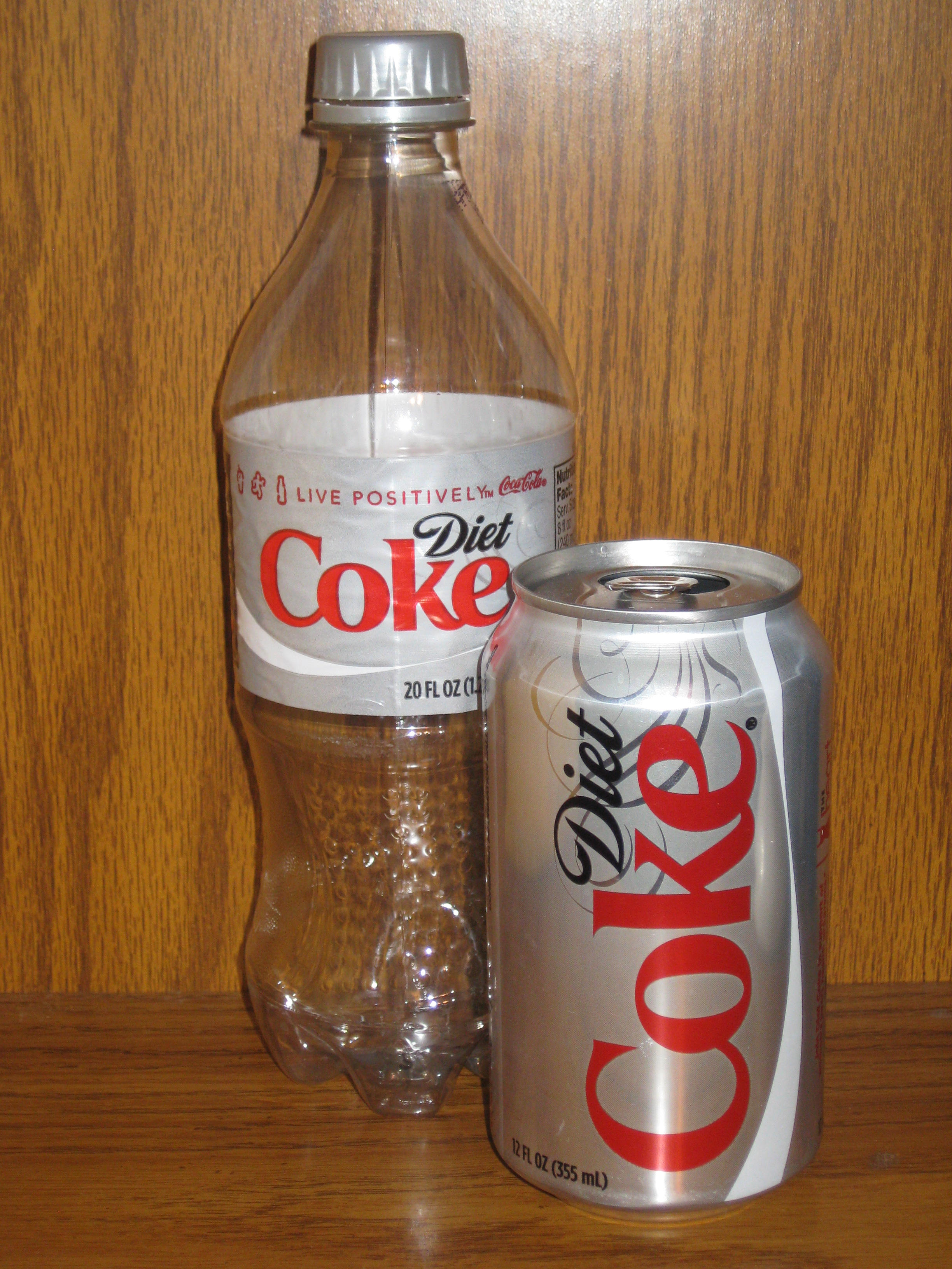 Diet Coke